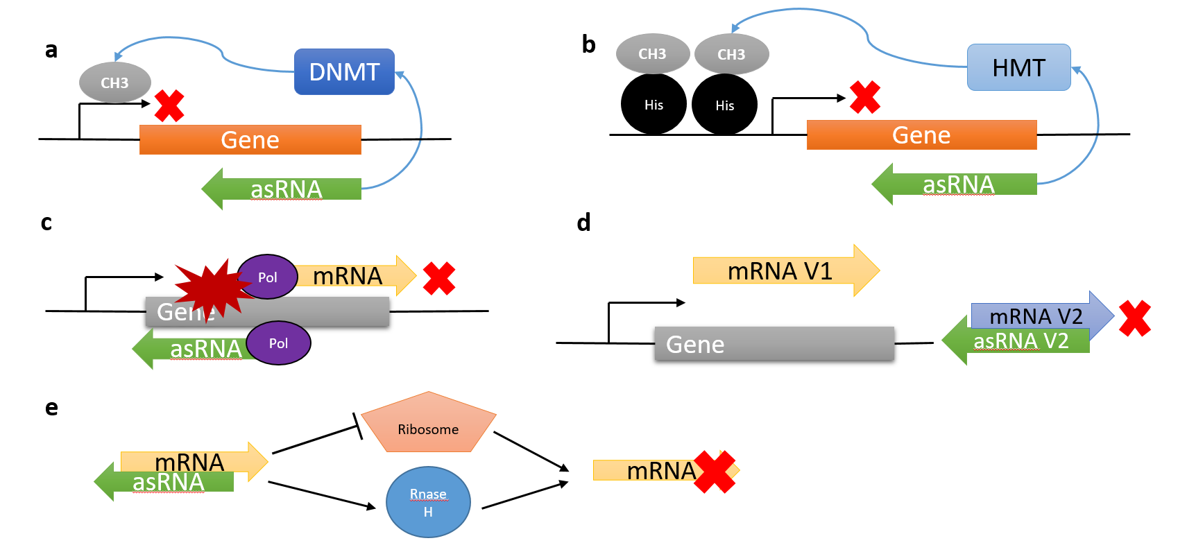 AsRNAs can regulate gene expression from epigenetic, transcription and translation level. The major role of asRNAs is to repress specific gene expression.